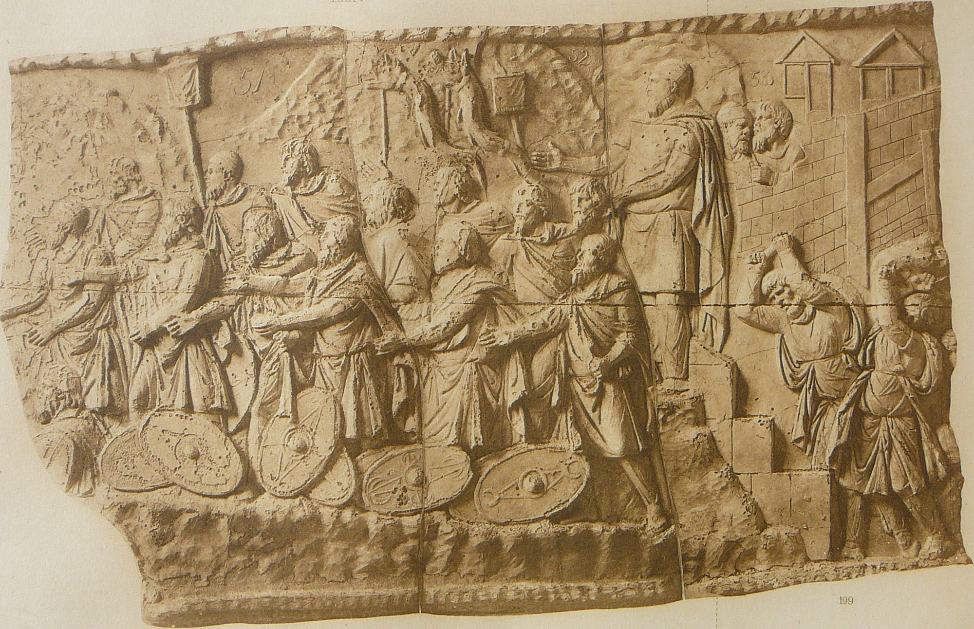 Subjugation of the Dacian people (scene LXXV); departure of native population (scene LXXVI)